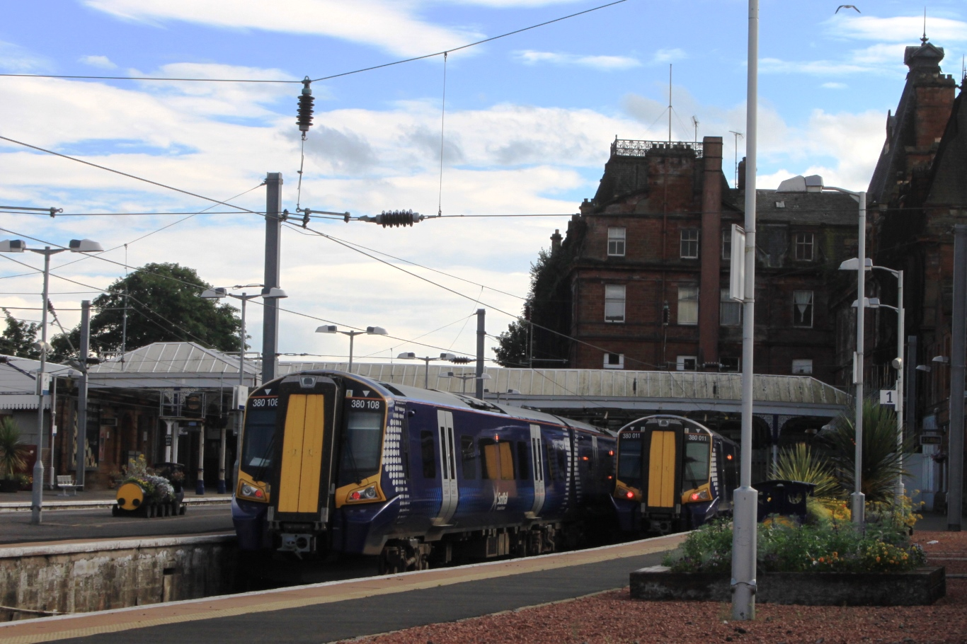 Four-car 380108 and three-car 380011 meet up in the bay platforms at Ayr.